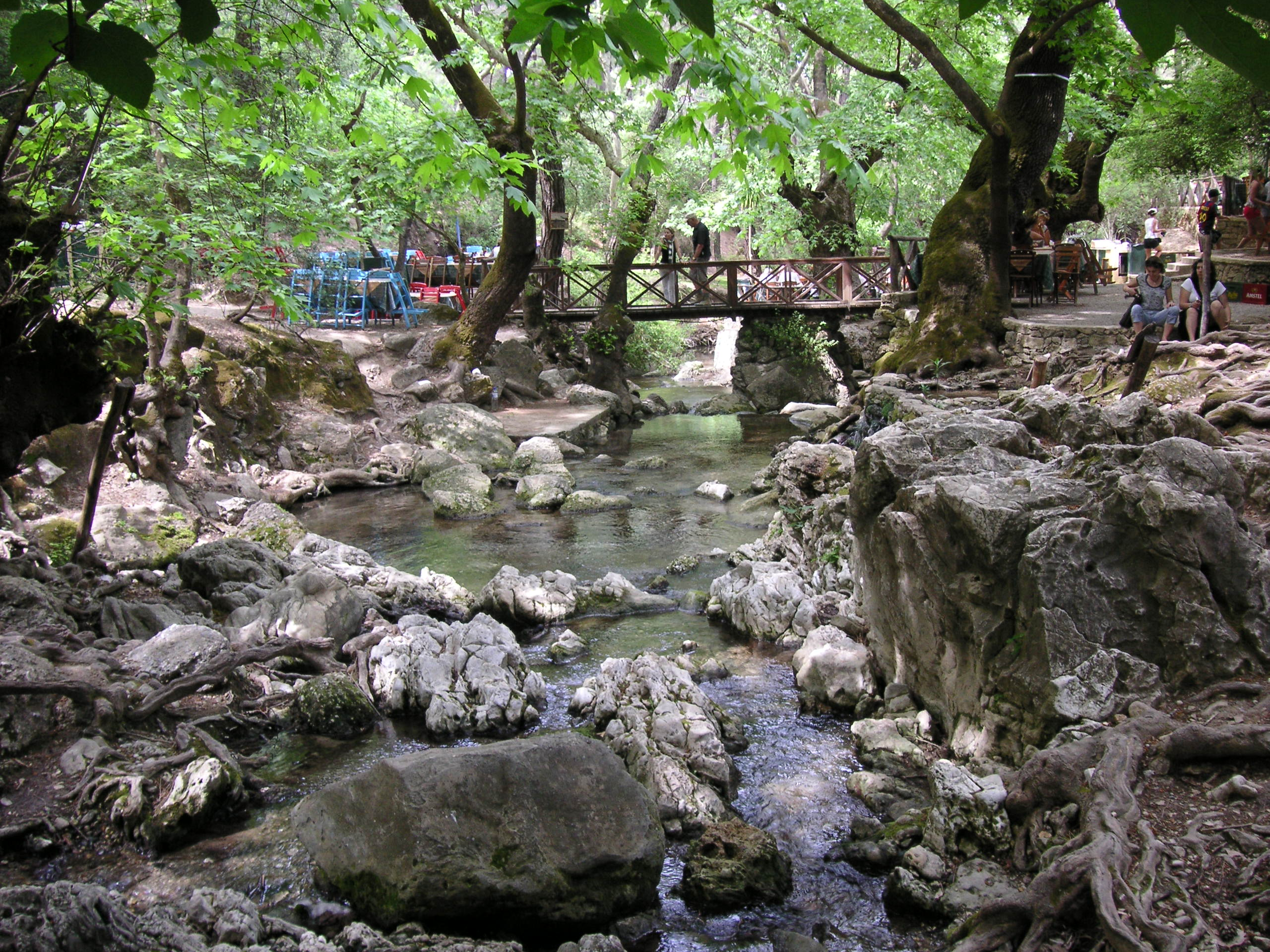 Seven springs (Epta piges) on Rhodes near Kolympia